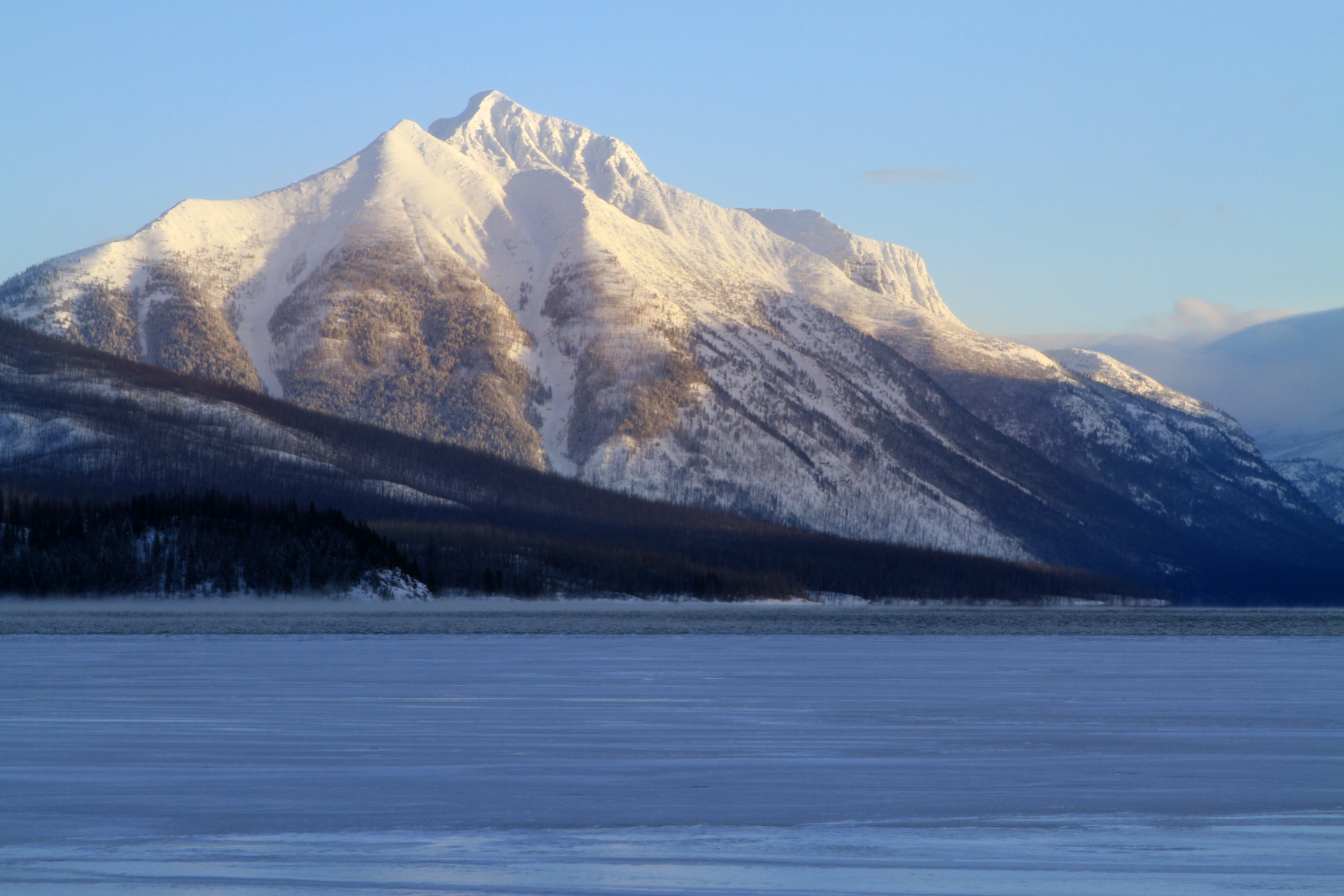 Stanton Mtn and Mt Vaught dominate the horizon in front of a partially frozen Lake McDonald. Photo: David Restivo, NPS